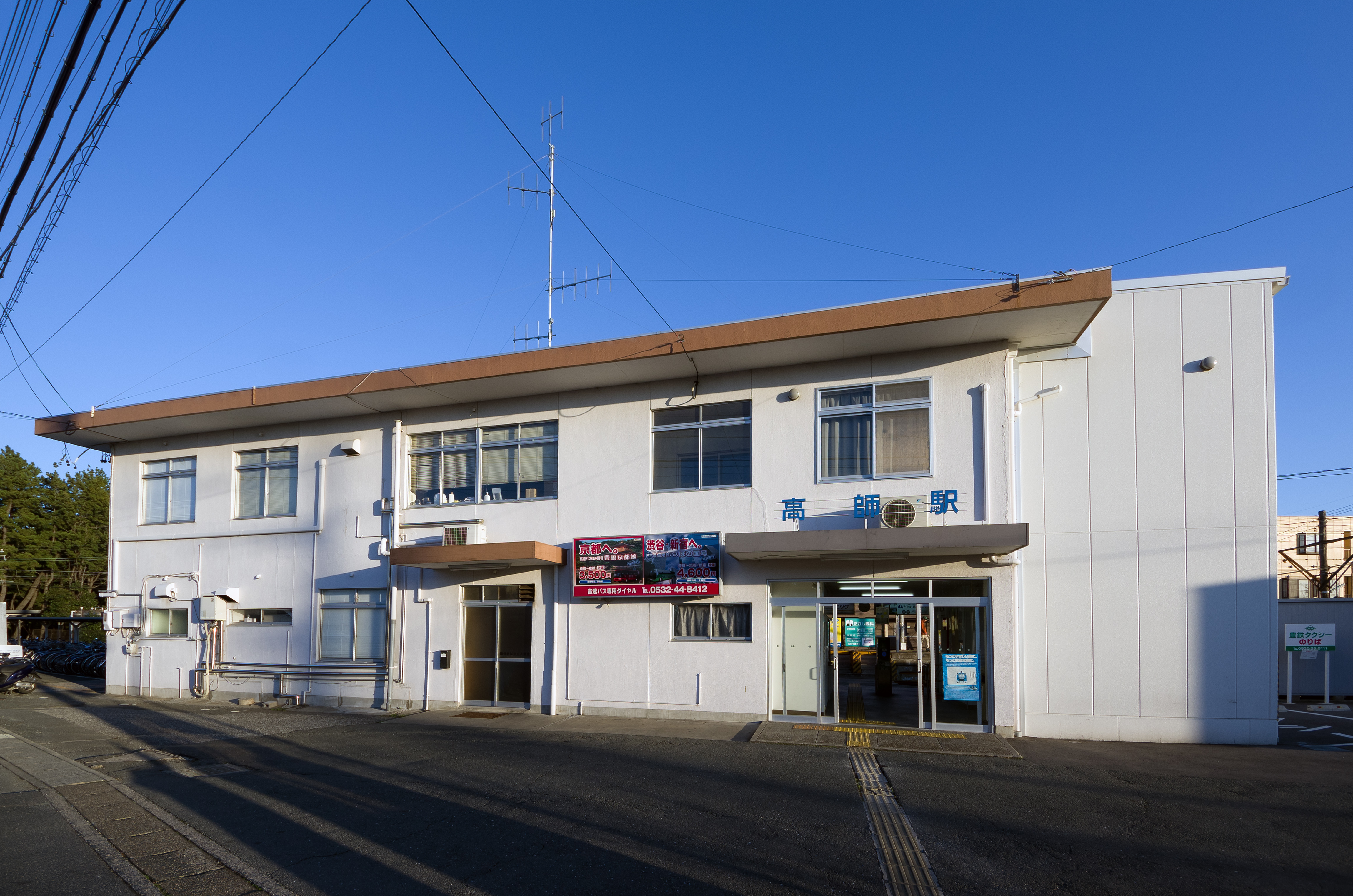 Station building of Takashi Station (Toyohashi Railroad Atsumi Line).